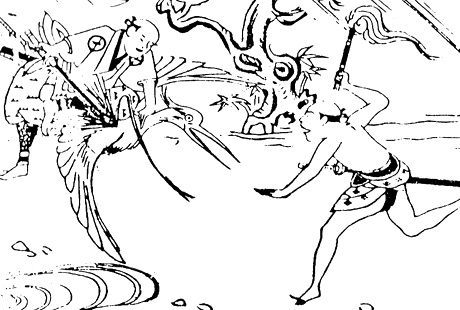 Ugume from the Shokoku Hyakumonogatari